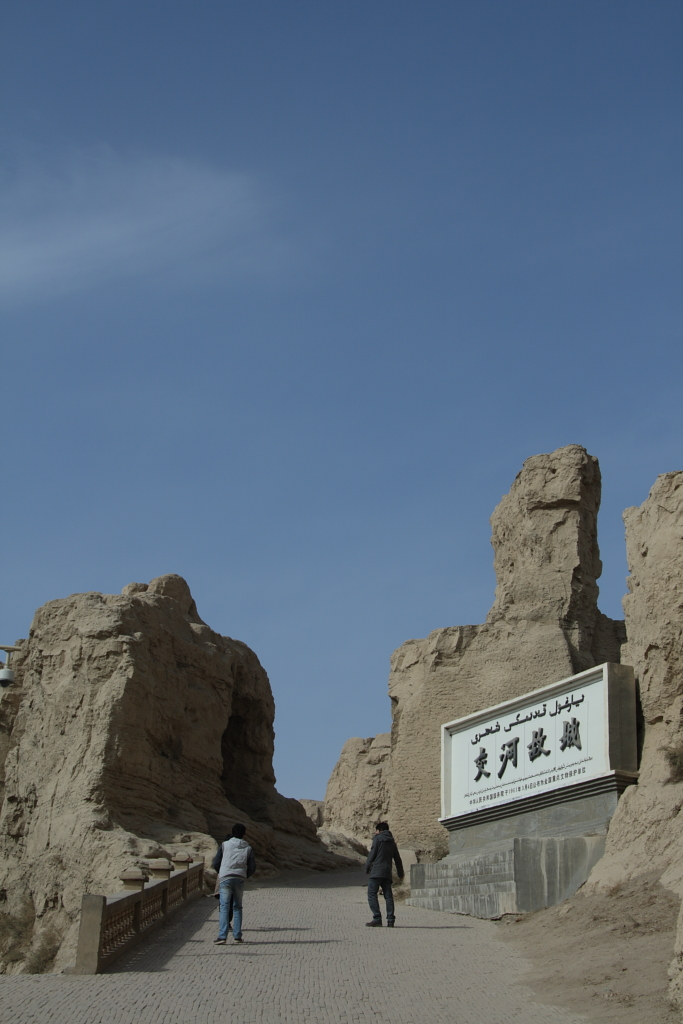 Entrance of Ancient City of Jiaohe